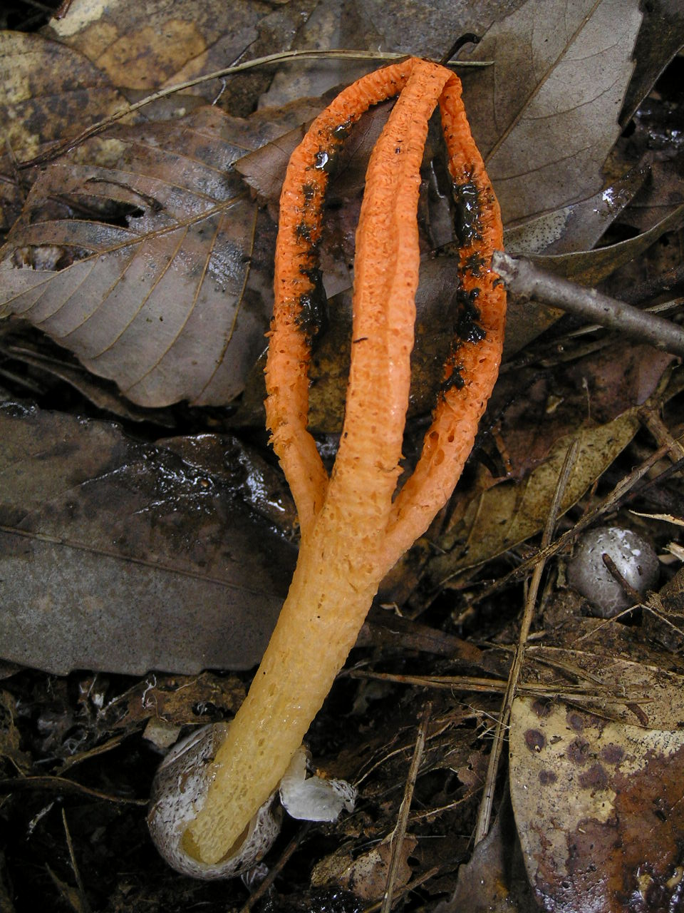 Pseudcolus schellenbergiae